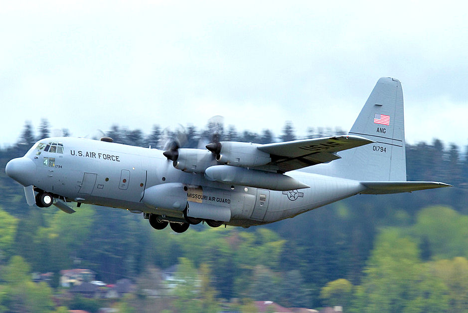 180th Airlift Squadron Lockheed C-130H2 Hercules 90-1794